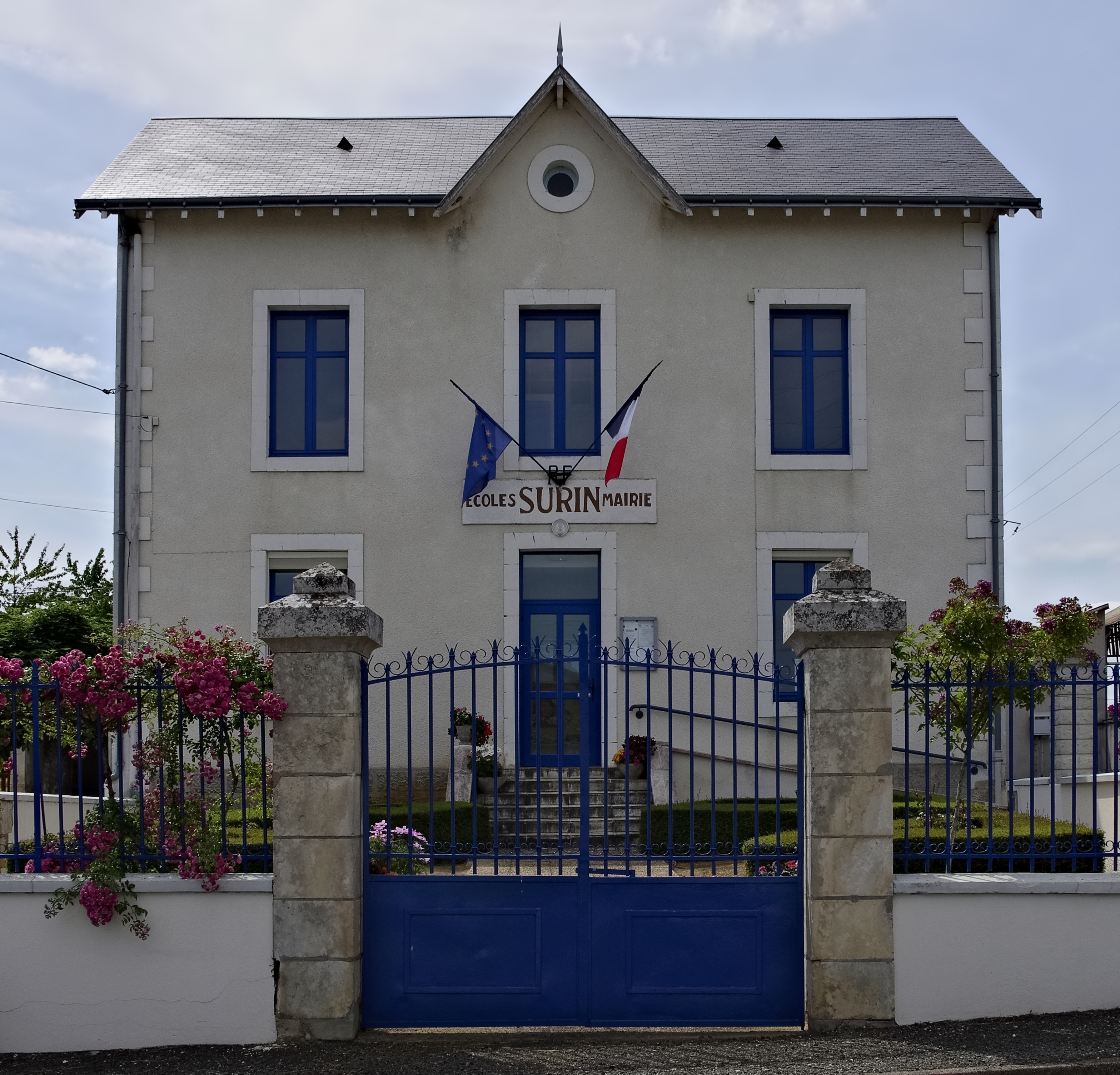 City hall of Surin, Vienne, France.